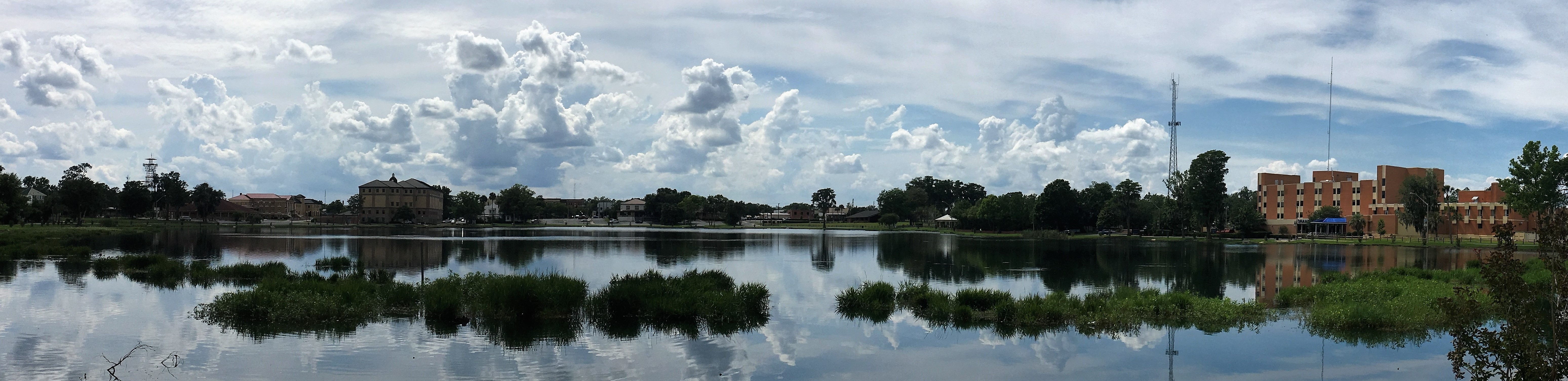 Panorama of Lake City, Florida